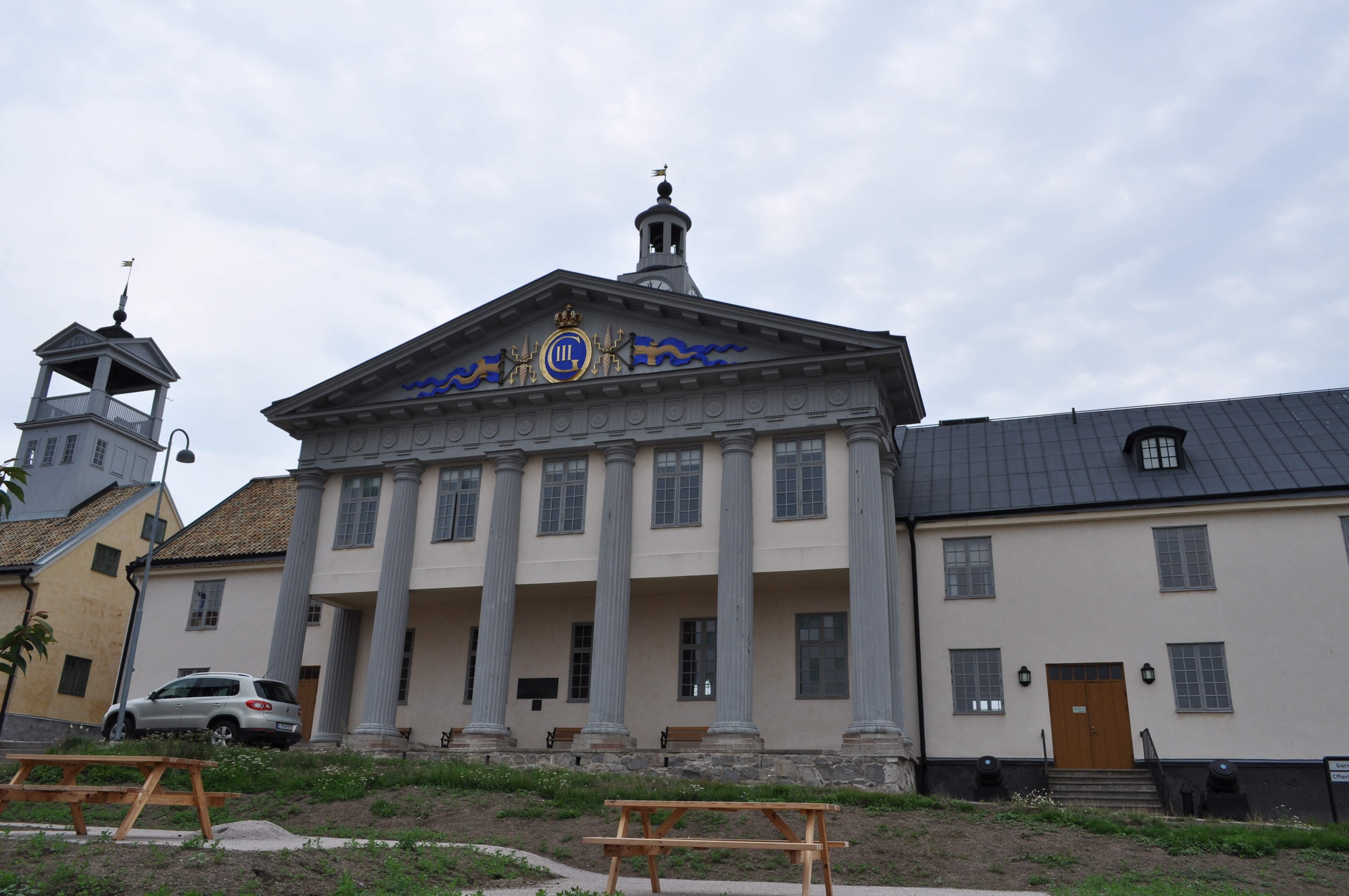 Karlskrona naval base. Mönster och modellsalsbyggnaden